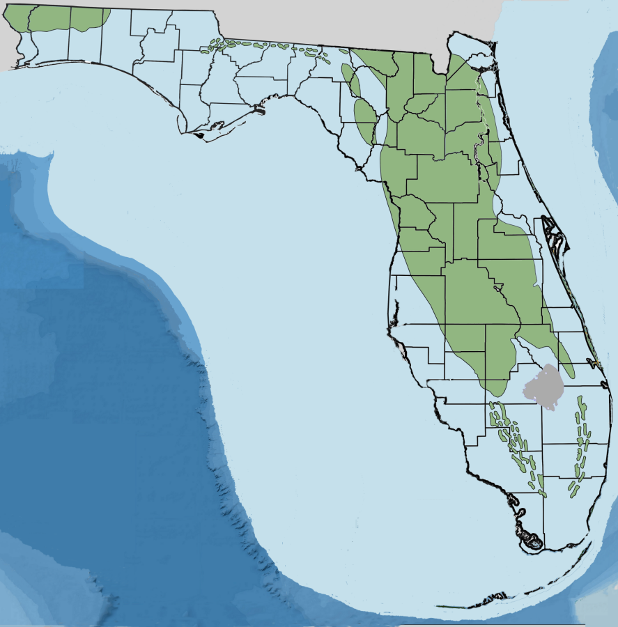 Depiction of Florida during the Burdigian of the Miocene ~20.4 to 13.6 million years ago. Based on work by Edward Petuch, Ph.D., Florida Atlantic University, Dept. of Geosciences.